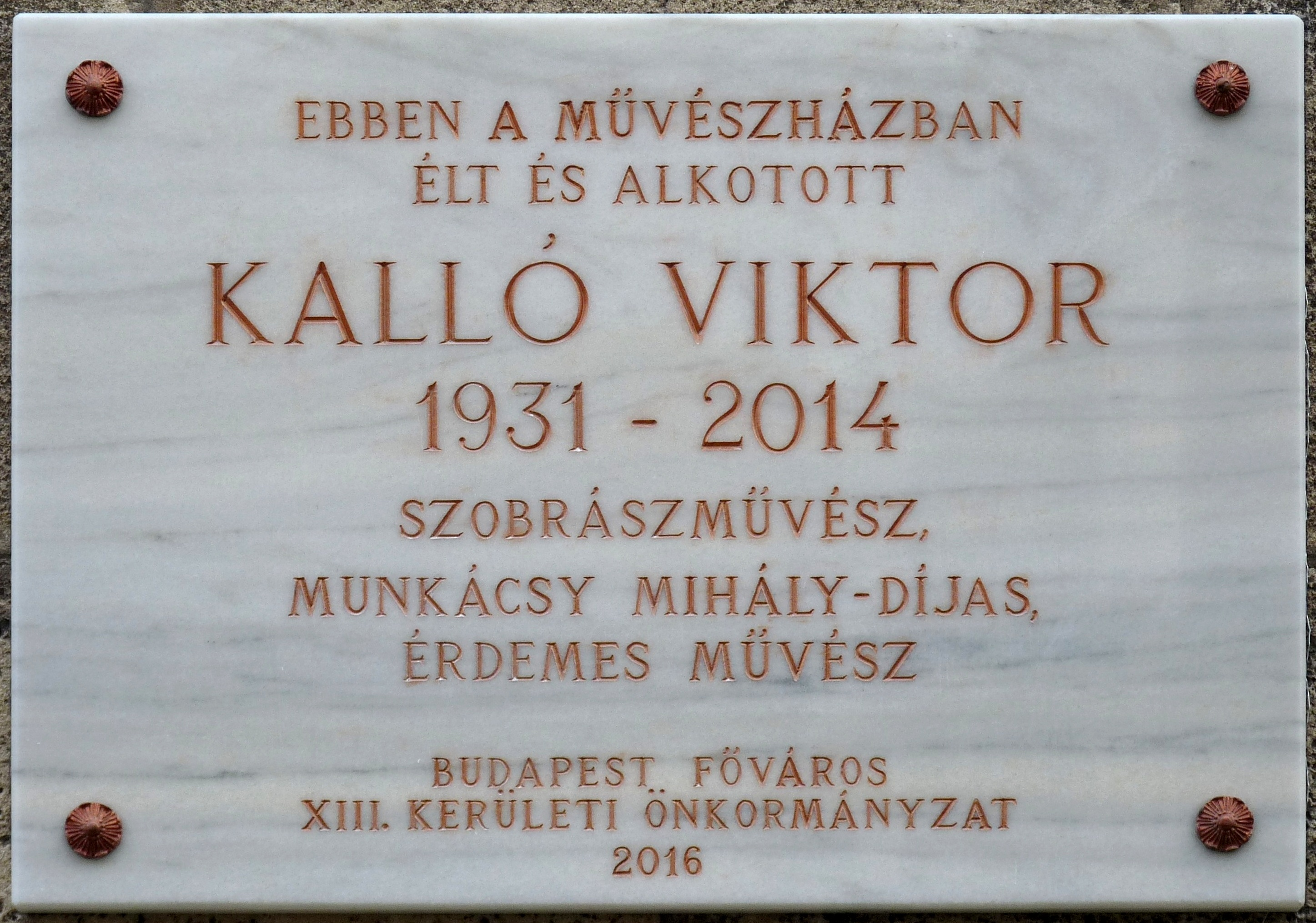 Commemorative plaque to Mr. Viktor Kalló, Sr. (1931–2014) Munkácsy Mihály Prize winner Hungarian sculptor. It is affixed to the wall of the "House of Artists" where he lived and worked from 1958 until his death. The plate has been unveilled November 18, 2016. (Budapest, District XIII, Máglya Alley Nr 3)